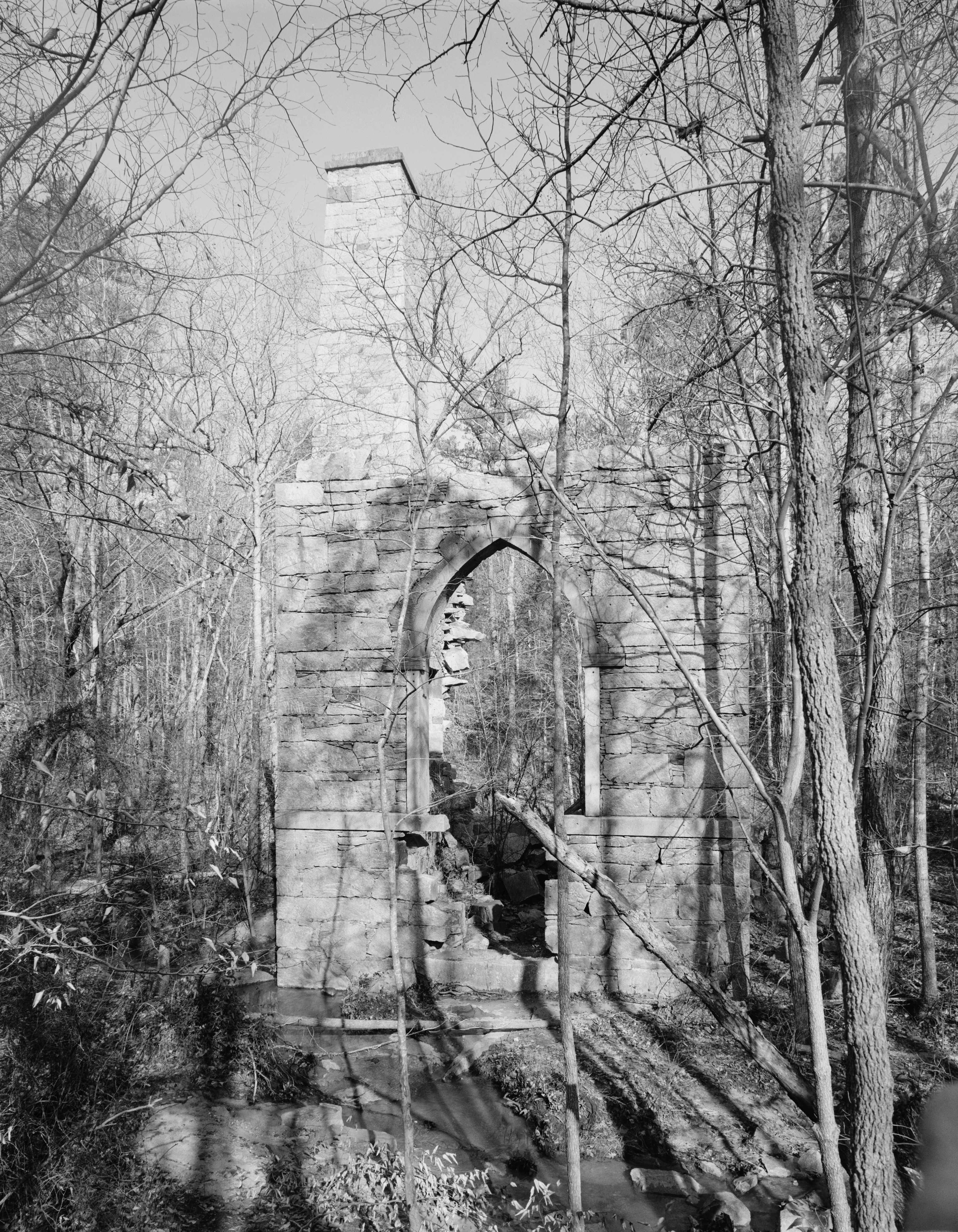 McCulloch Gold Mill, Copper Branch, north of State Route 1153, Jamestown vicinity (Guilford County, North Carolina)